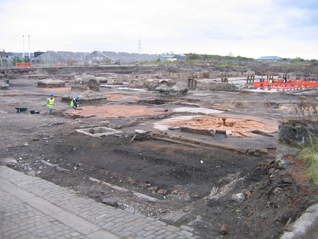 Caledonian Pottery excavations, Rutherglen During 2007, in advance of the forthcoming destructive passage of the M74 motorway extension, an archaeological consortium was busy uncovering historical evidence of the previous use of land in Rutherglen and at other sites across the south of Glasgow. This was the former Caledonian Pottery in the angle between the main Glasgow - Carlisle railway and Farmeloan Road. The pottery was opened on this site between 1870 and 1872 and made a wide ranger of products, including teapots, bowls and stoneware jugs. In 1898 it was bought by jam-makers W.P.Hartley to ensure a supply of stone jamjars but closed in 1928 when glass jars became common. The pottery was demolished and the ground level raised some four feet on concrete to support the Caledonian Steelworks, built on the site in 1930. This in turn closed in the early 1960s. The orange circles in the foreground are the bases of kilns where the pottery was fired, the white square to their left being the foundation of a chimney to take away the hot fumes from the firing. The square plinths beyond them are part of the foundations of the later steelworks, some still sprouting cut-off girders. The white area to the left of the orange barriers was the potters' workshop in which the jars, etc. were moulded from clay. In the bottom corner was the exit road from the pottery yard, the stone slabs at right-angles to the setts being arranged to give a smooth passage for cart-wheels and ease the burden on the carthorses.